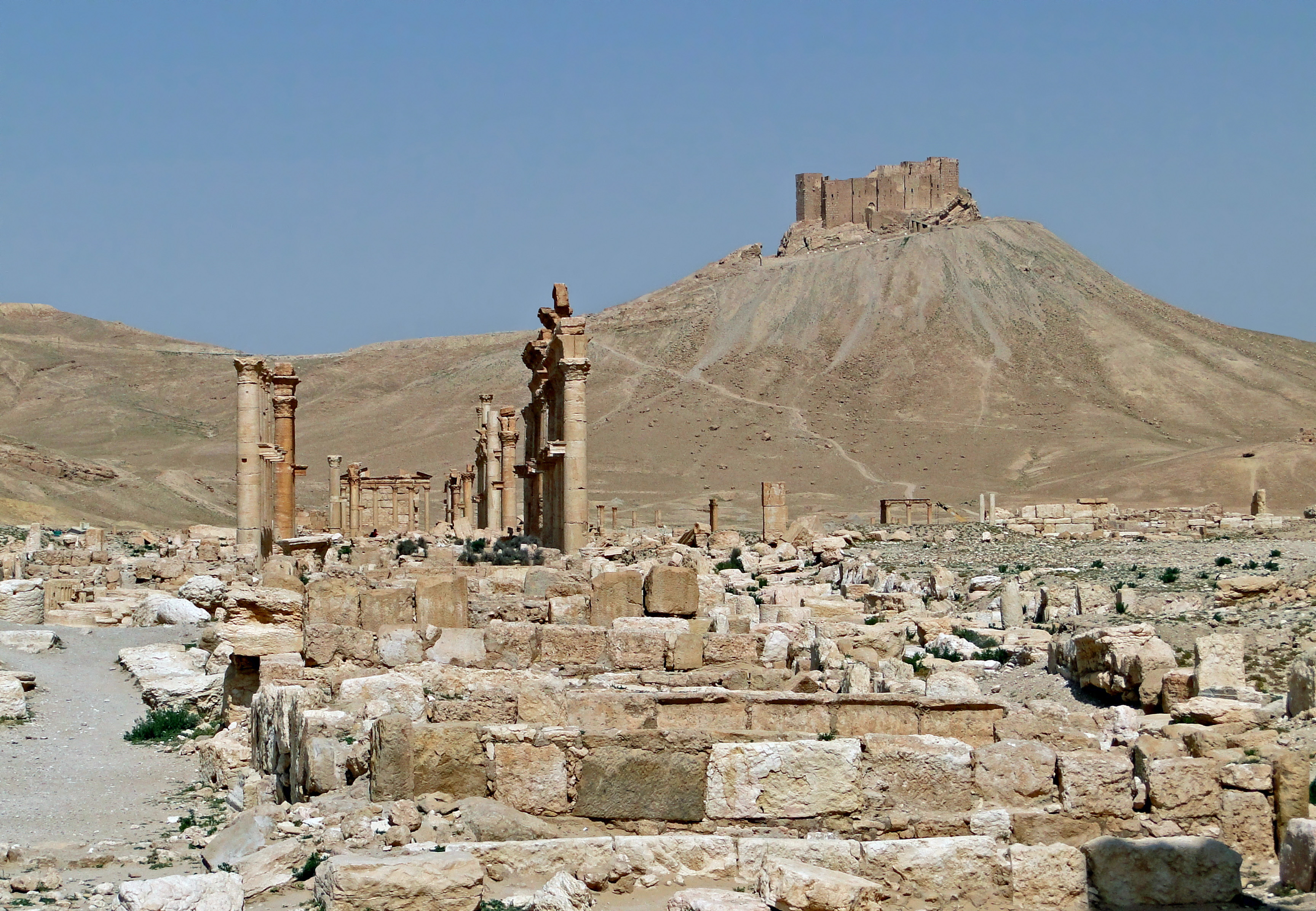 Diocletian's camp and the Qasr Ibn Maʿan in Palmyra, Syria